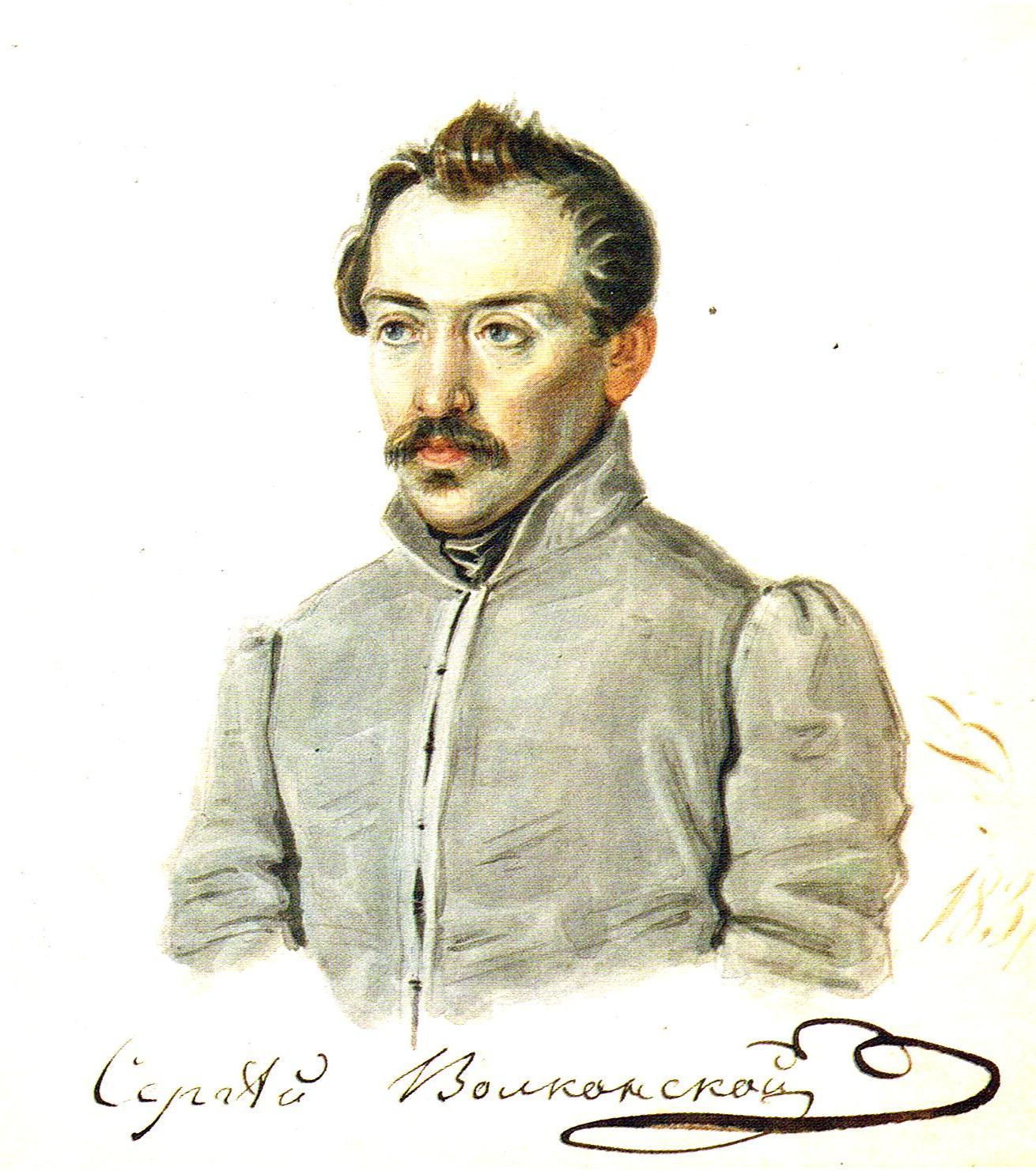 Sergey Volkonskiy by Bestuzhev